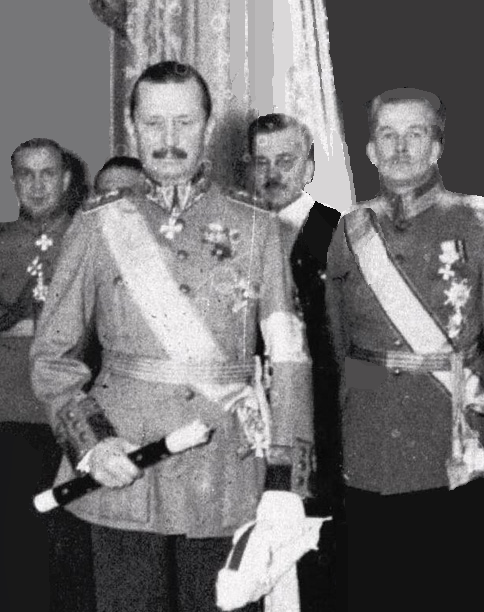 Promotion of Gustaf Mannerheim to the field marshal and the acception of the marshal baton in 1933